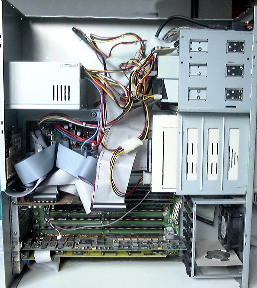 Inside of a genuine Commodore Amiga 4000T equipped with a CyberStorm PPC604e/Motorola 68060 dual CPU board, Cybervision 64 graphics board and Ariadne Ethernet board. Please notice the cardboard "loudspeaker hack" in the bottom right area. It is build after a proposal from Dr. Peter Kittel in 1996 (see here to enhance the bad sound output of the speaker due to its sub-optimal mounting position)